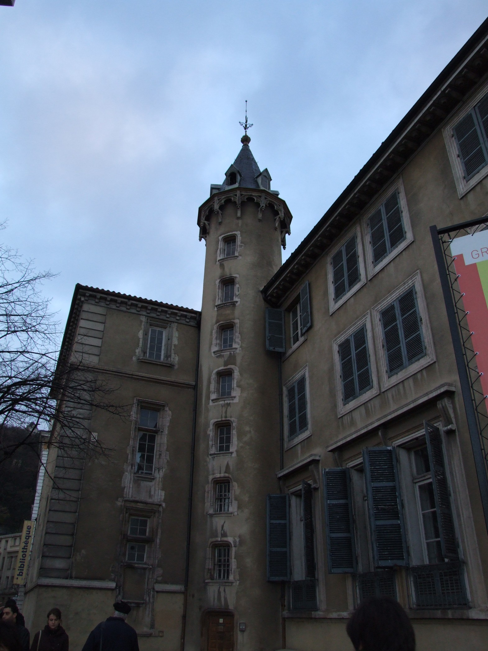 Cathedral St-Jean, Lyon, FRANCE